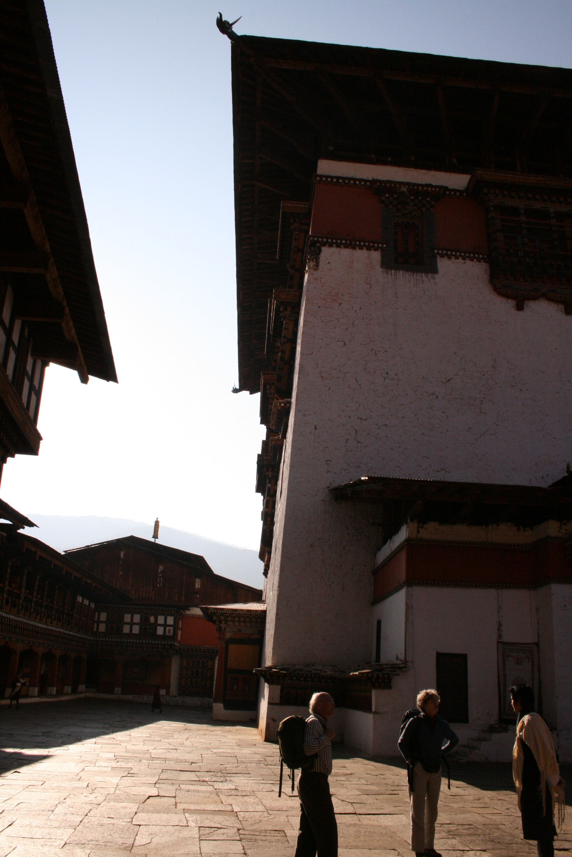 Bhutanese dzong architecture: courtyard and inner tower at Rinpung Dzong, Paro